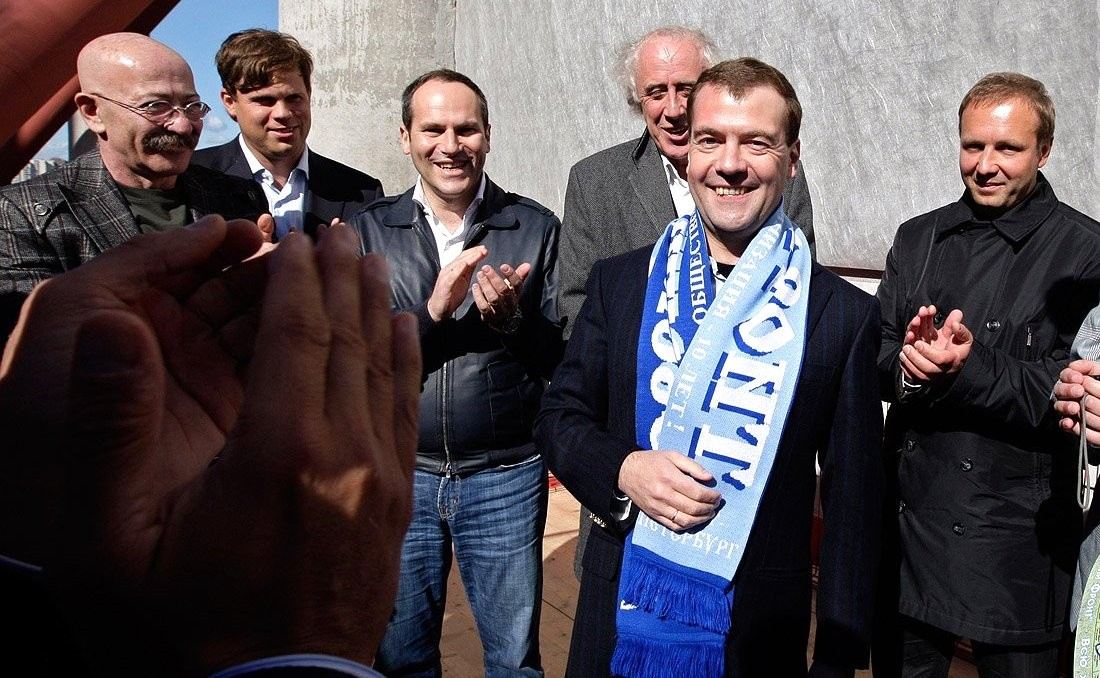 Dmitry Anatolyevich Medvedev